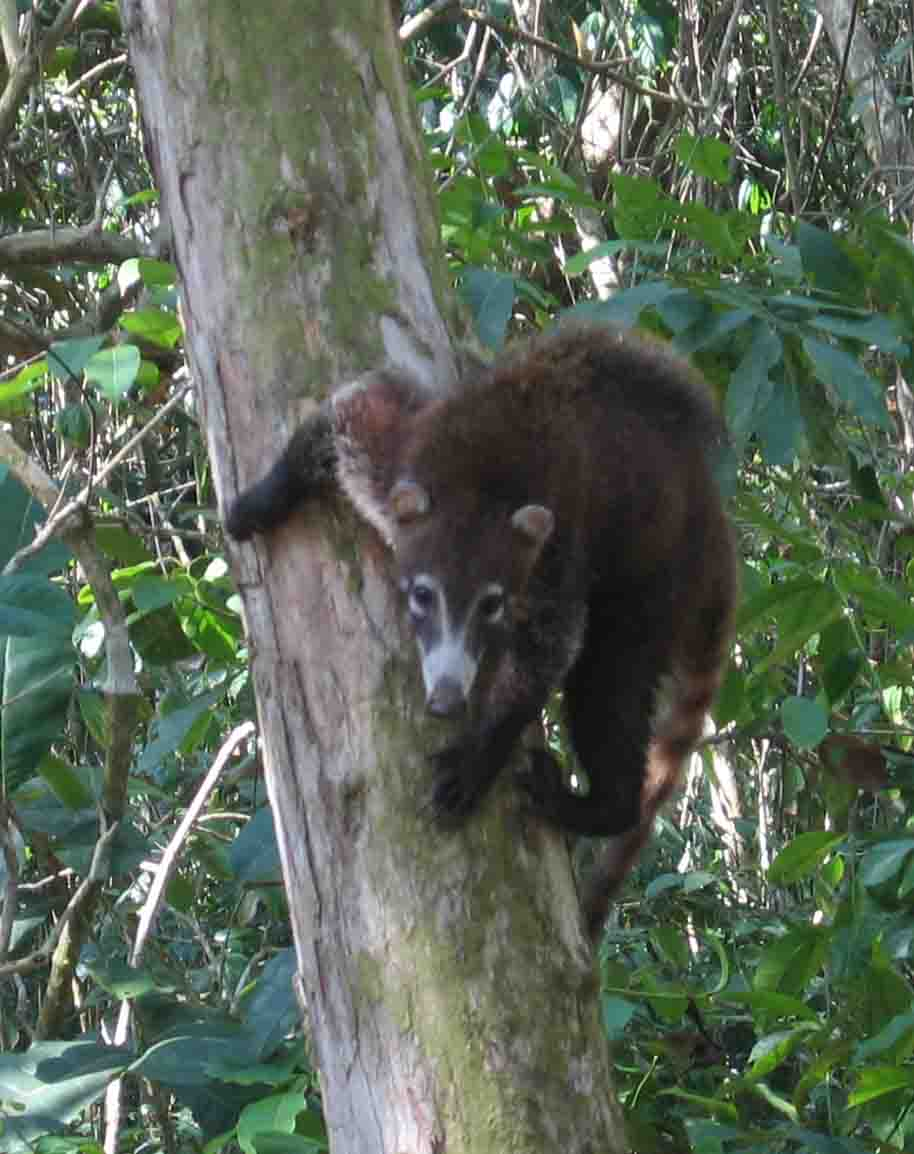 Photograph by Dirk van der Made (User:DirkvdM - for more photos see user:DirkvdM/Photographs). A Coati in Parque Nacional Corcovado, Costa Rica, 26 March 2004. That is White-nosed Coati (Nasua narica)